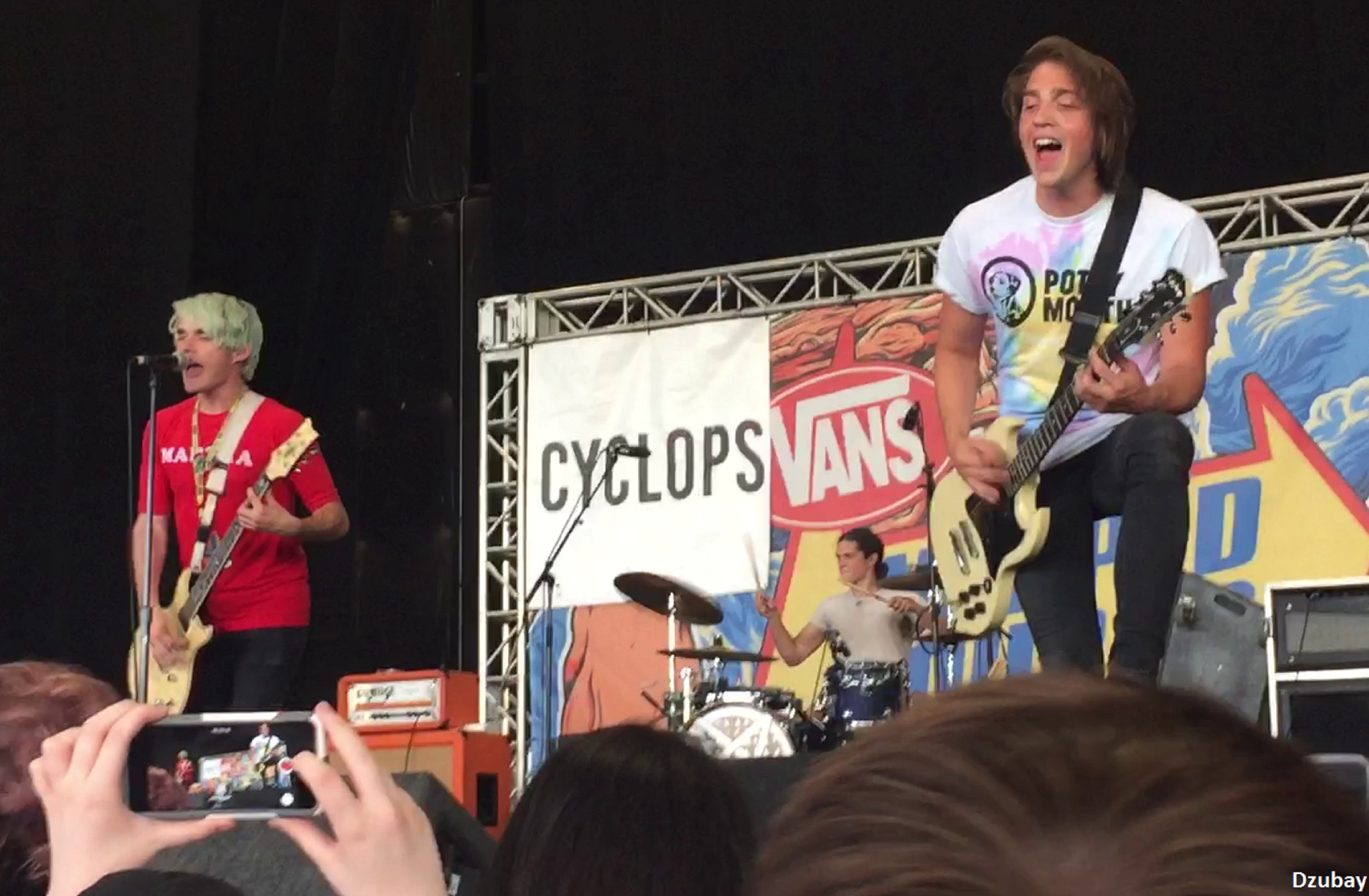 Waterparks performing in Hartford, CT at the XFINITY Theater on Warped Tour on July 10, 2016.